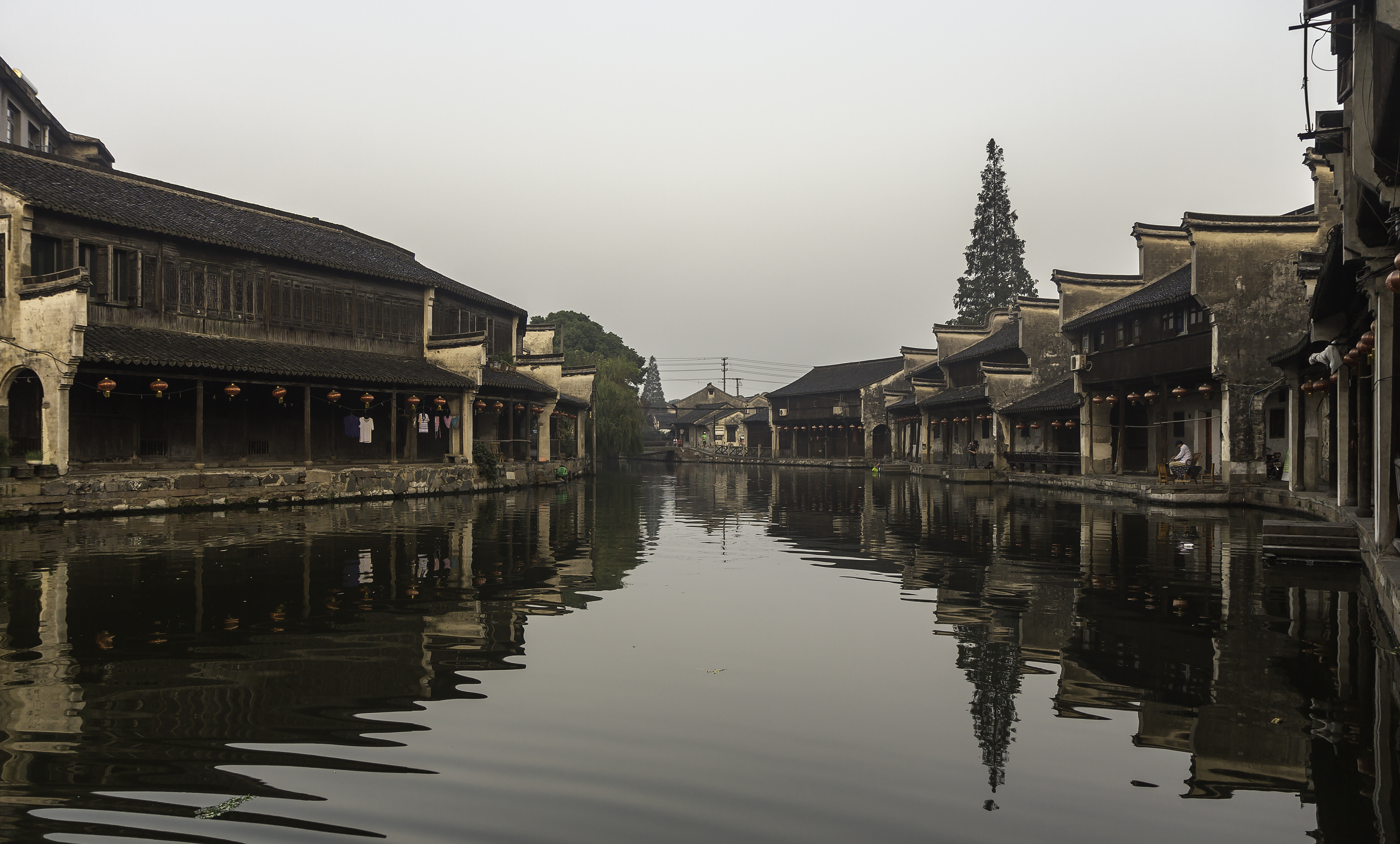 Baijian Lou Houses in Nanxun, Ancient water town, Zhejiang, China